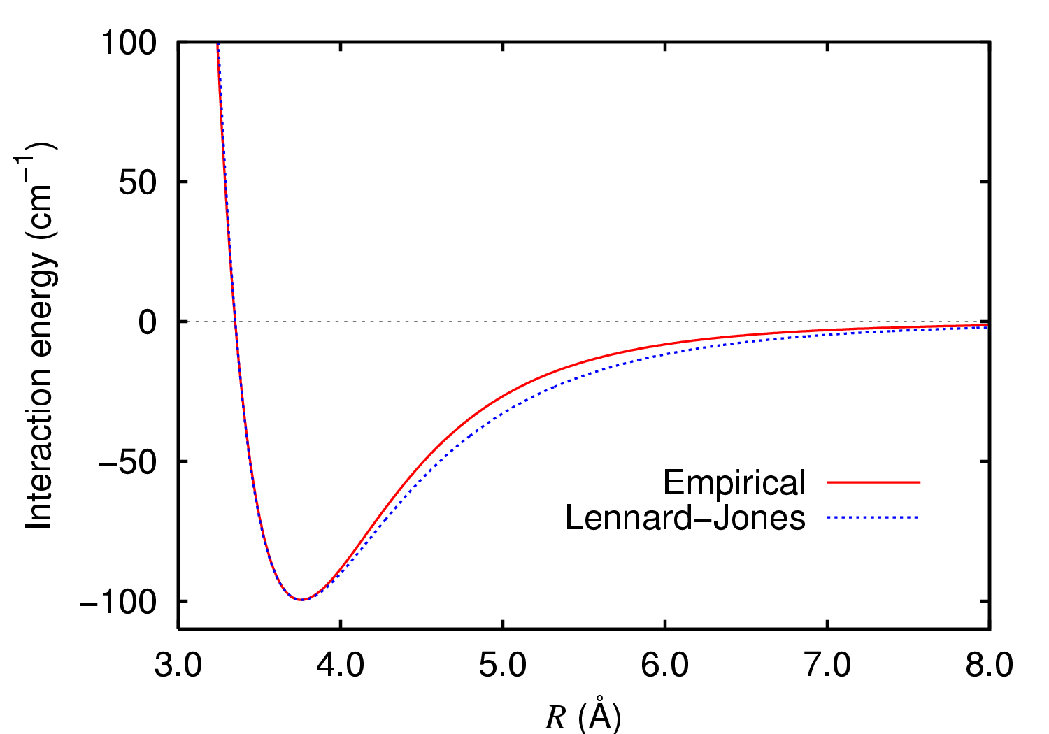 Lennard-Jones potential for argon dimer